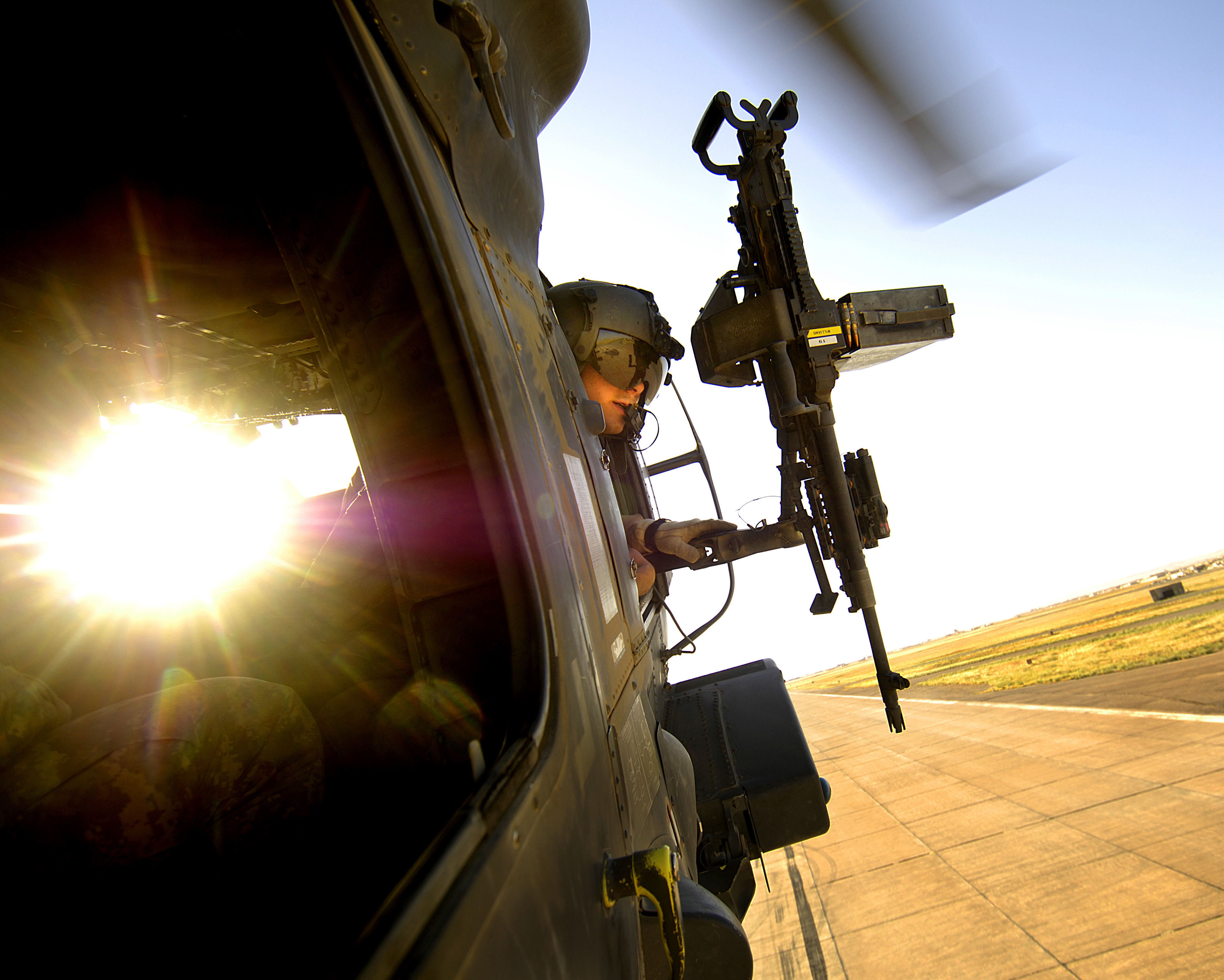 Pfc. Jordan Williams, a UH-60 Blackhawk crew chief for B Co., 1-207th AVN, Alaska National Guard, clears the helicopter for landing after an aerial traffic control point mission near Tall Afar, Iraq, on June 5, 2006. Photo by Staff Sgt. Jacob N. Bailey. This photo appeared on .